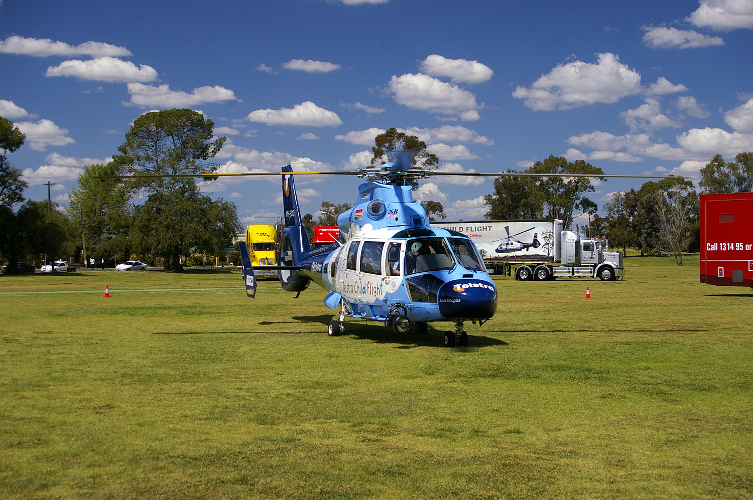 Telstra ChildFlight at Bolton Park in Wagga Wagga. Twin-engined Eurocopter AS 365 Dauphin N2.